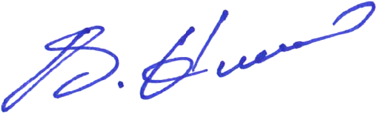 Vitali Klitschko signature